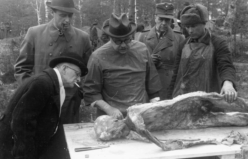 The Katyn Massacre, 1940 Members of the International Medical Commission examining the body of exhumed Polish officer. From left to right: Dr François Naville, Professor of Forensic Medicine at the University of Geneva; Dr Helge Tramsen, Prosecutor at the Institute of Forensic Medicine in Copenhagen; Dr Ferenc Orsós, Professor of Forensic Medicine and Criminology at the University of Budapest; Dr Arno Saxén, Professor of Pathological Anatomy at the University of Helsinki; unknown.